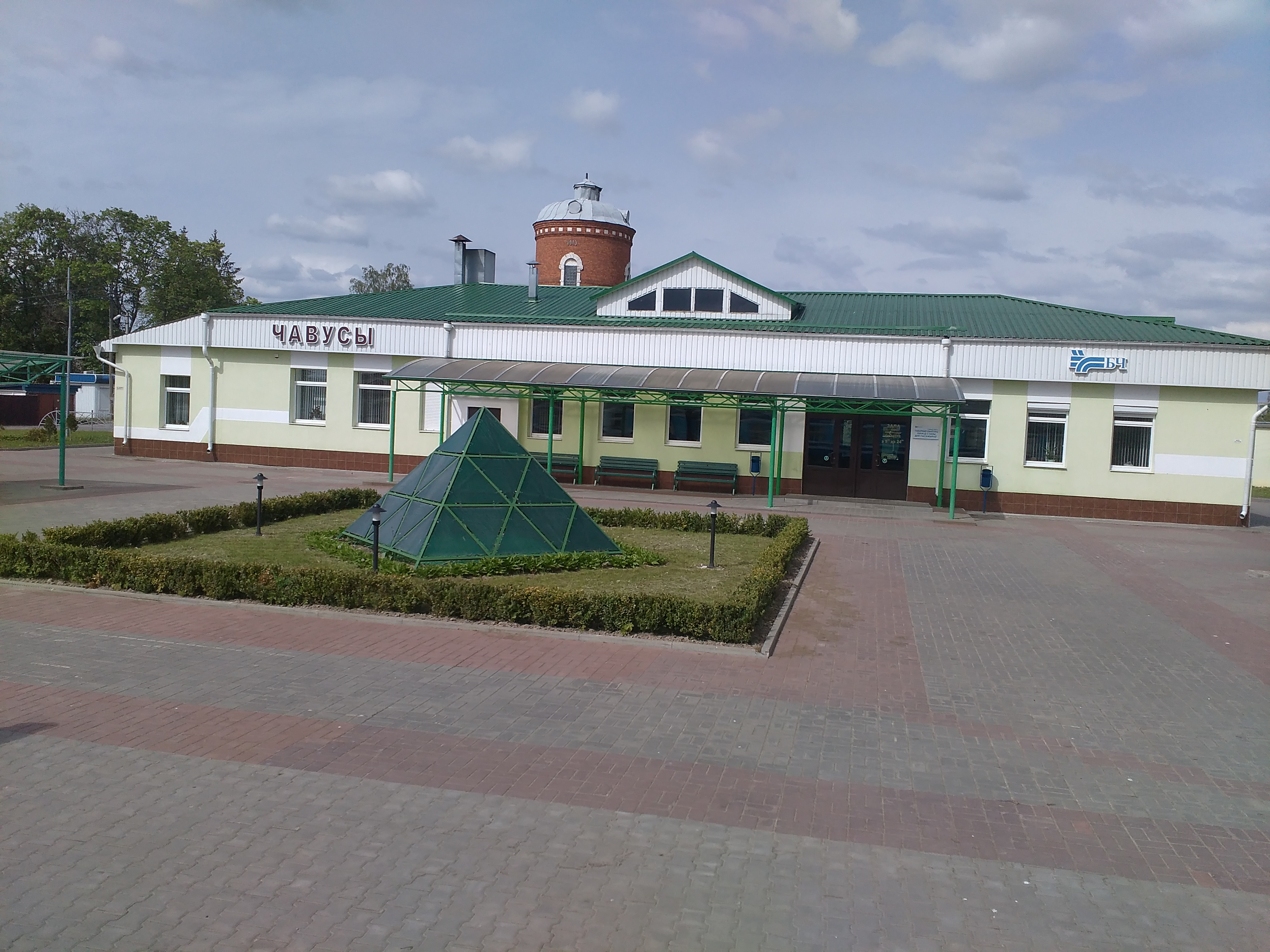 Railway station in the town of Chausy (Belarus)